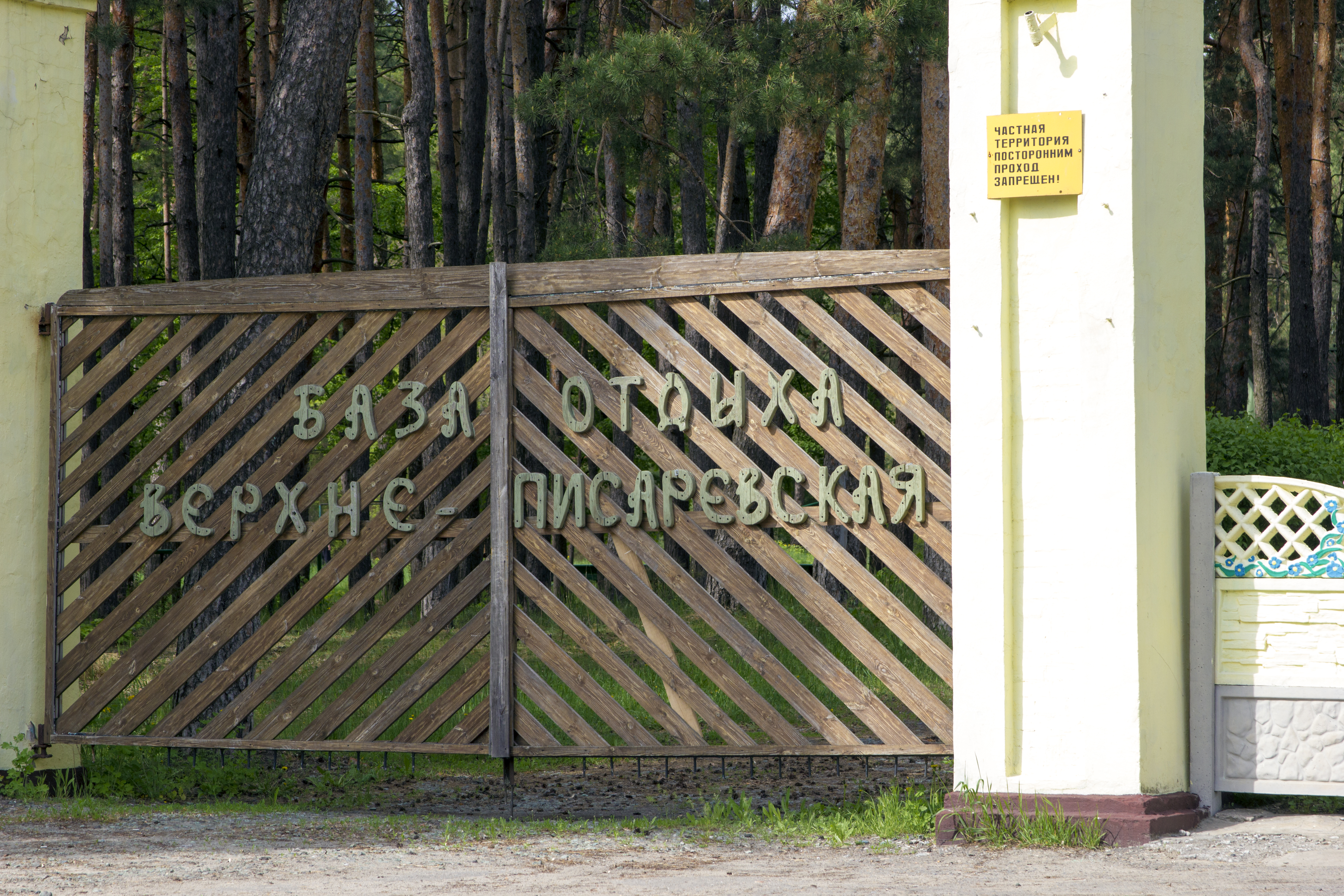 Holiday Hotel (2)